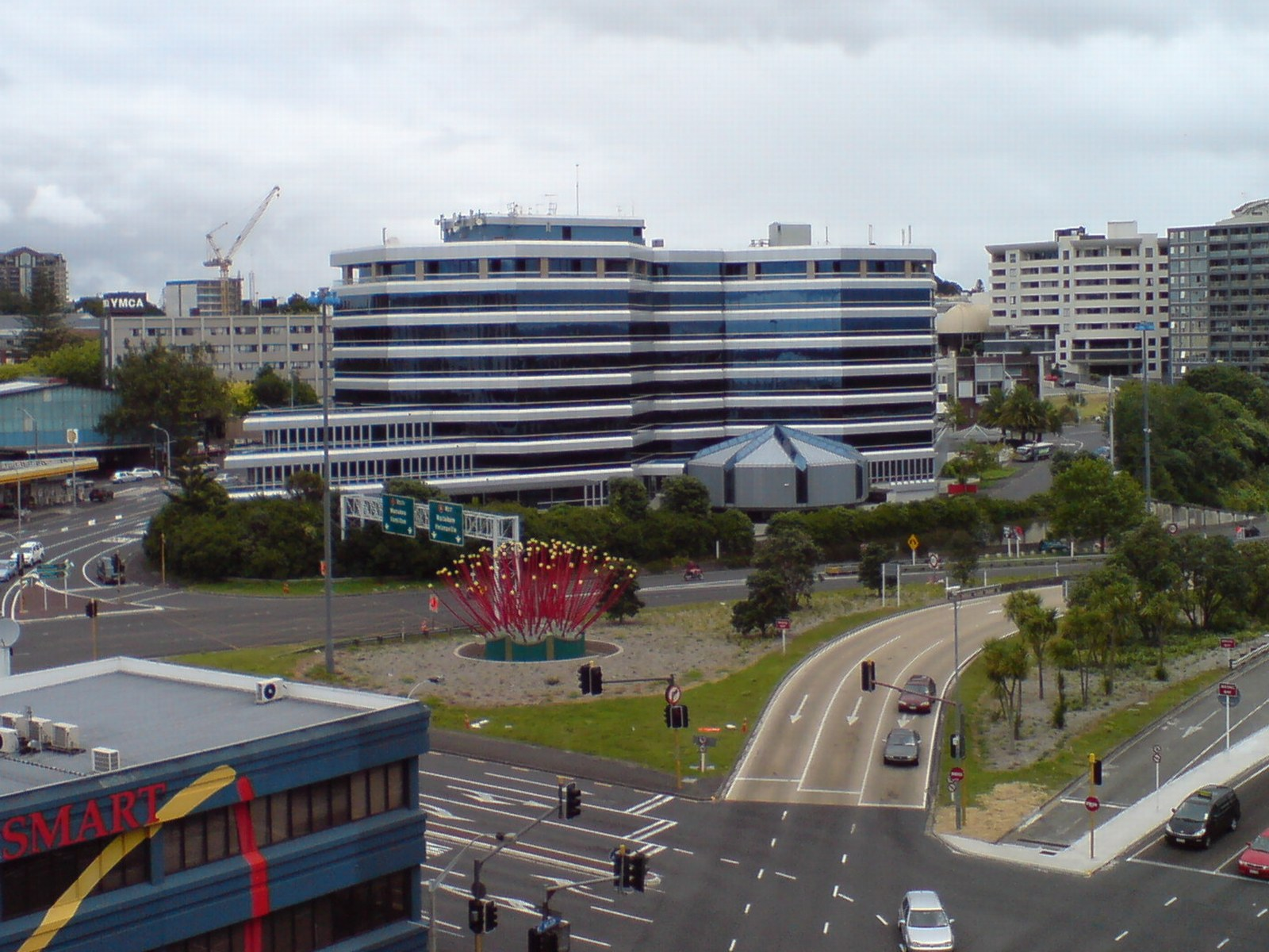 View of the Auckland Regional Council (ARC) building on Pitt Street, Auckland City, New Zealand, photographed from Nelson Street.